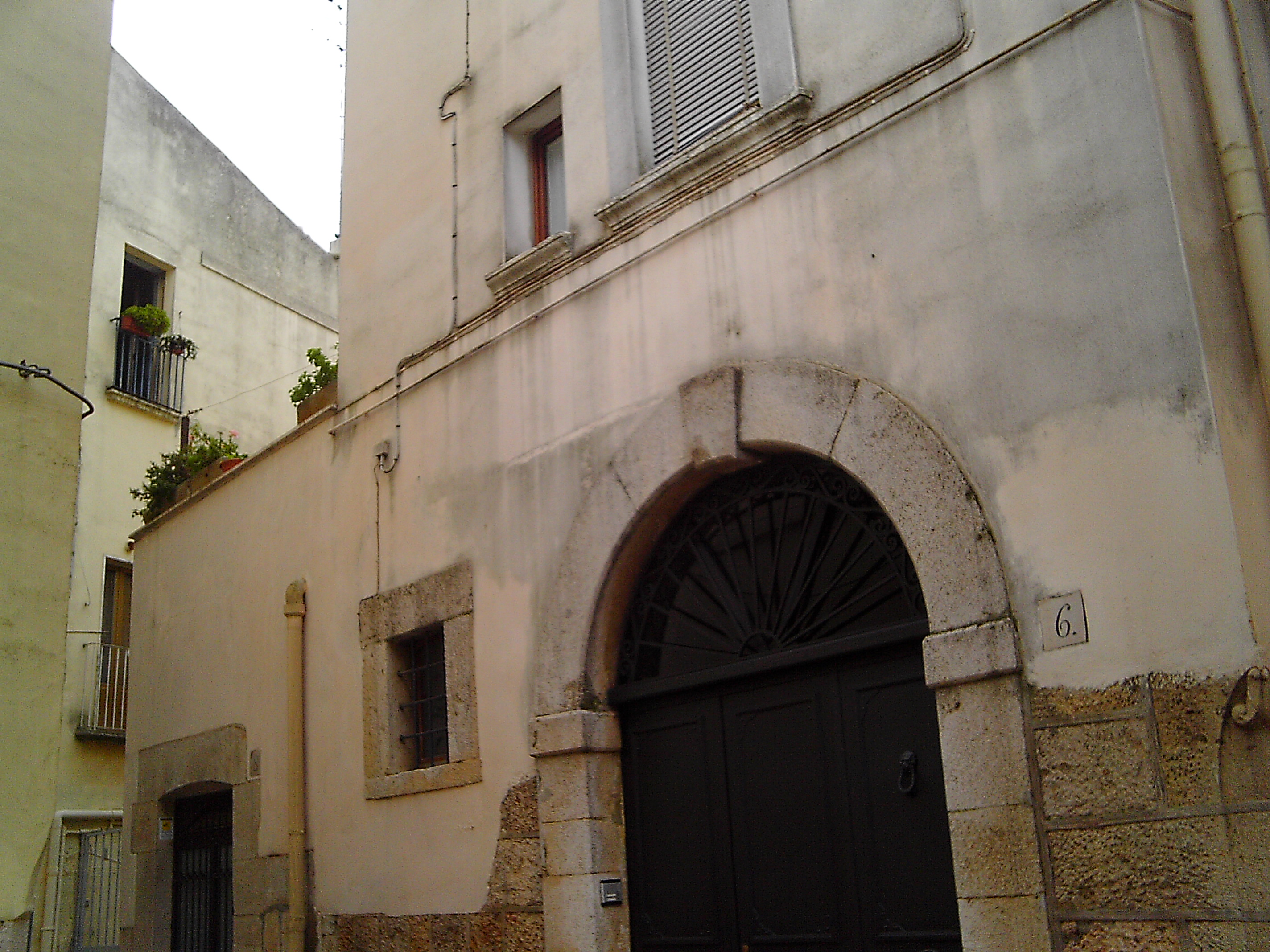 Casa Giannuzzi